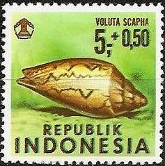 1969 Indonesia stamp showing shell of Cymbiola nobilis. Voluta scapha is a synonym of Cymbiola nobilis.